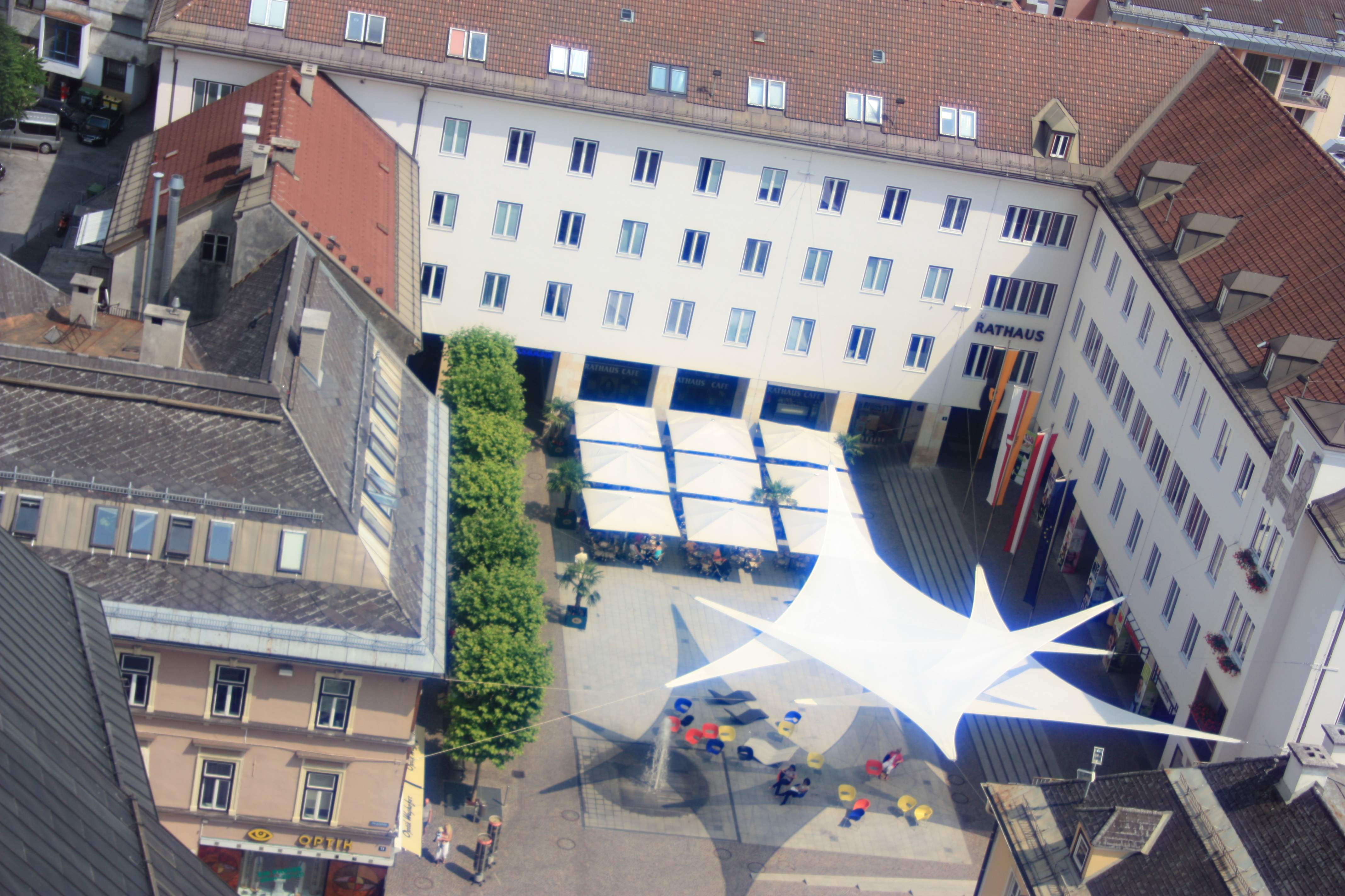 Rathausplatz Community:Villach